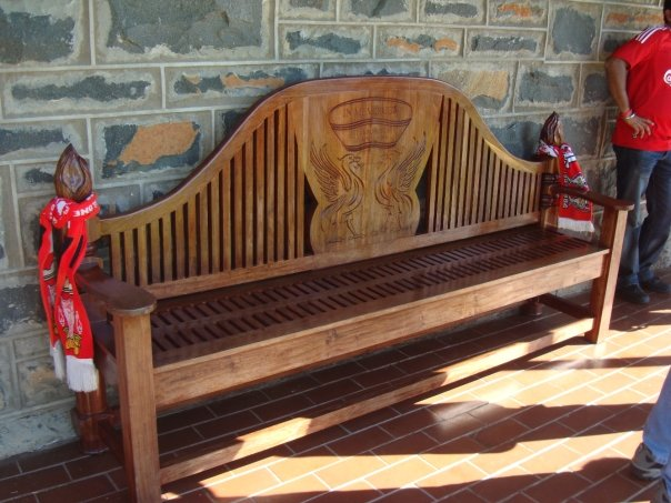 Bench commissioned by Guy Prowse to act as a permanent memorial to those lost at Hillsborough.